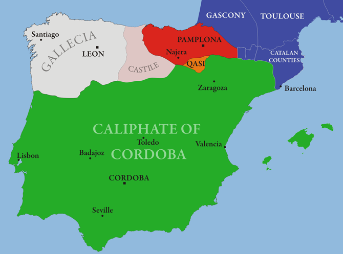 This map shows the Caliphate of Cordoba ca.1000 during Al-Mansur´s government. Blue: Few French and Catalan Counties. Green: Caliphate of Cordoba´s domains in Iberia. "White": "Gallecia" or kingdom of Leon. Pink: County of Castile Red: Kingdom of Navarra or Pamplona. Orange: Qasi family´s domain.